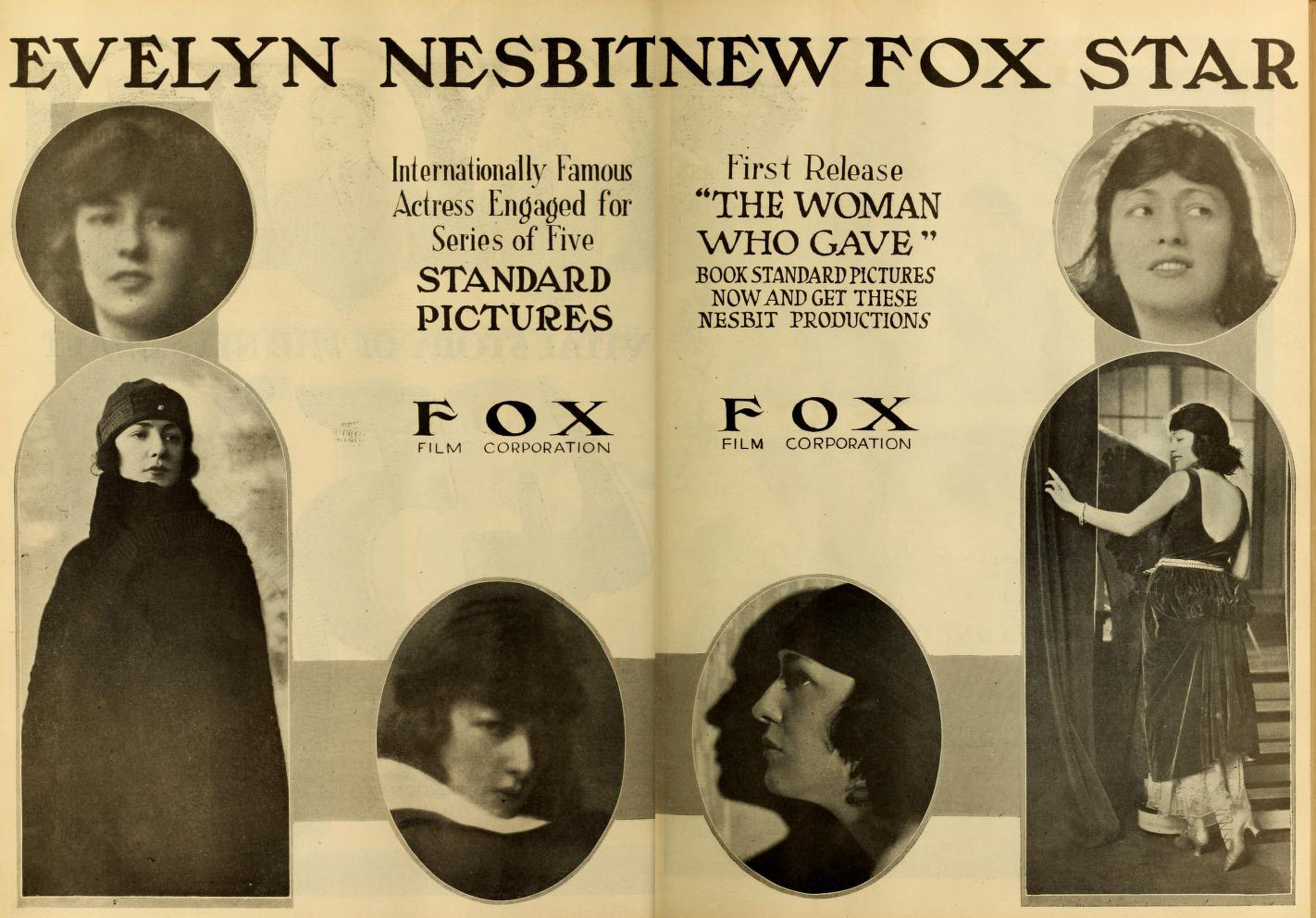 Advertisement in Moving Picture World for the American melodrama film The Woman Who Gave (1918) with Evelyn Nesbit.